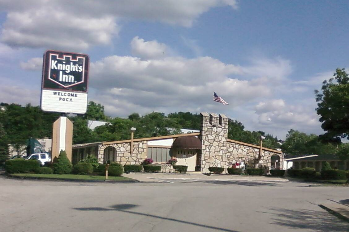 A Knights Inn motel.